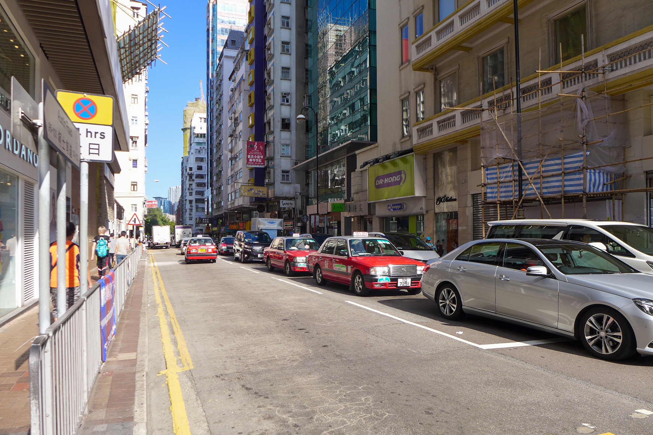 Austin Road